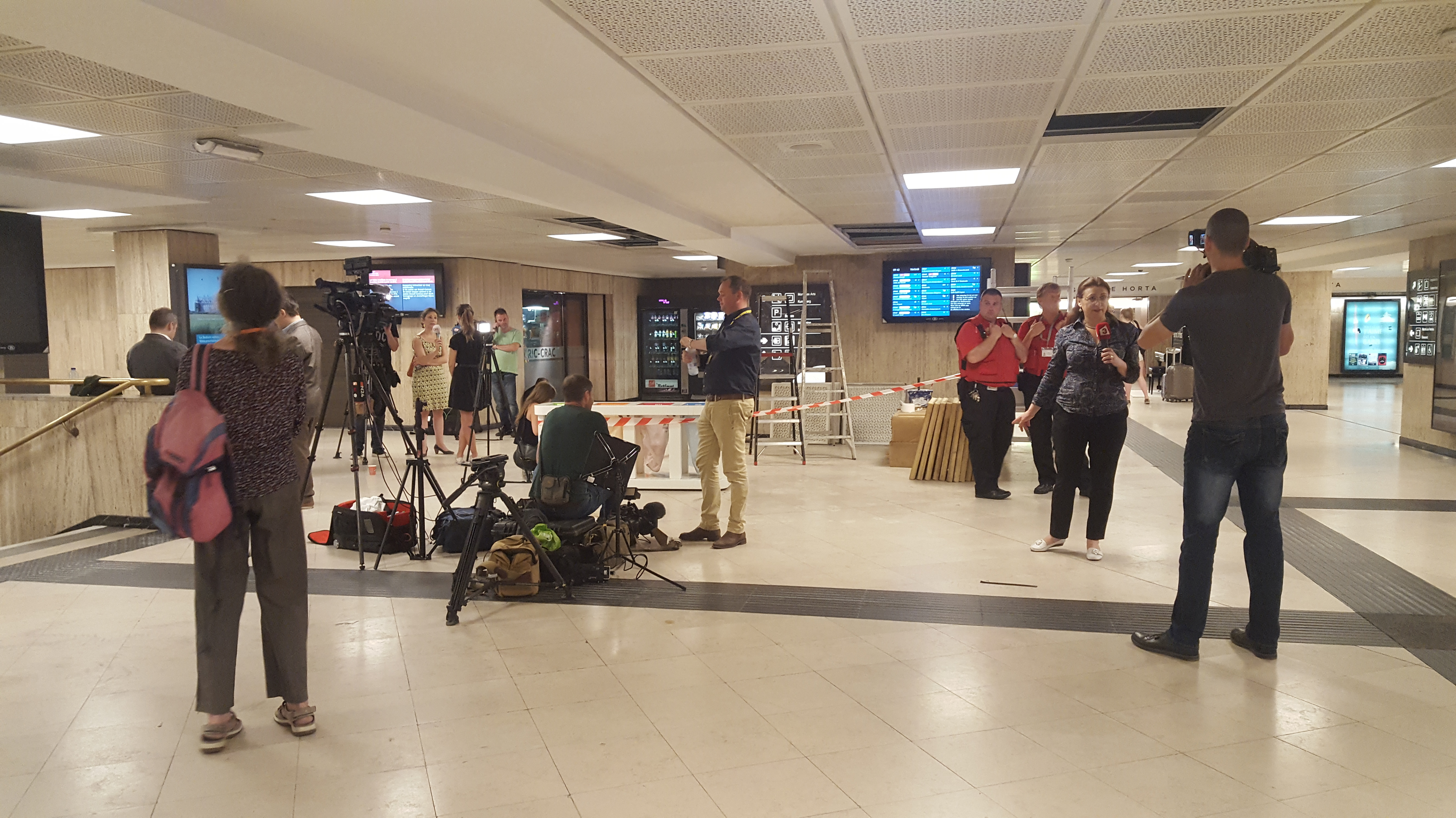 media around the spot where the bomb went of in the Brussels Central train station the morning after, Belgium, on 21 June 2017